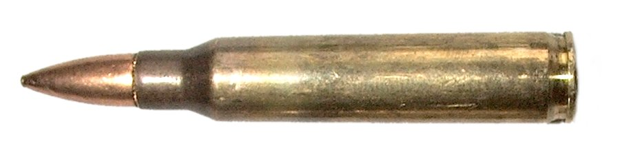 Patrone (Munition) Kaliber 5,56 x 45 mm NATO (Cartridge cal .223 Remington)